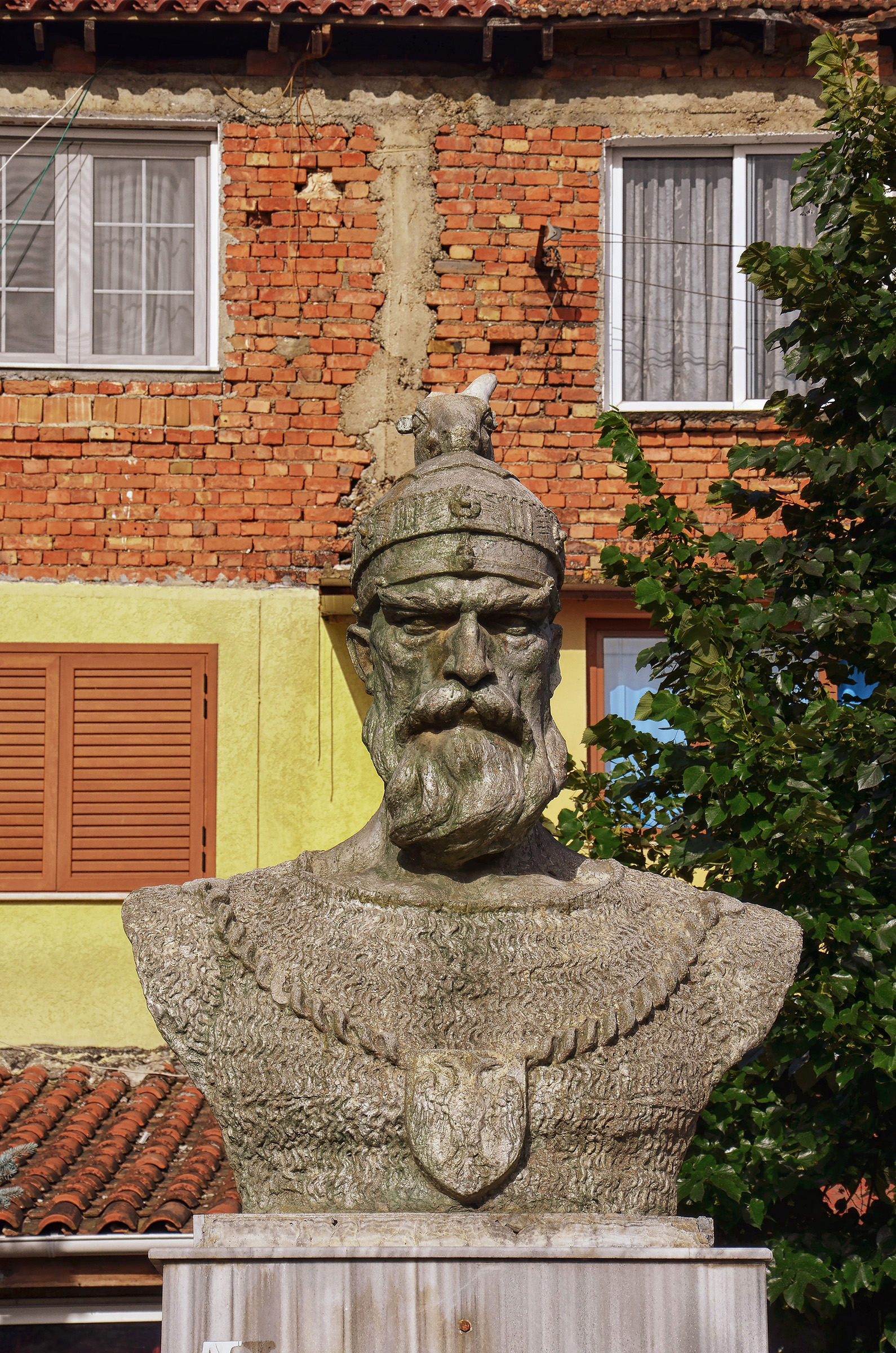 The bust of Skanderbeg in Mamurras, Albania